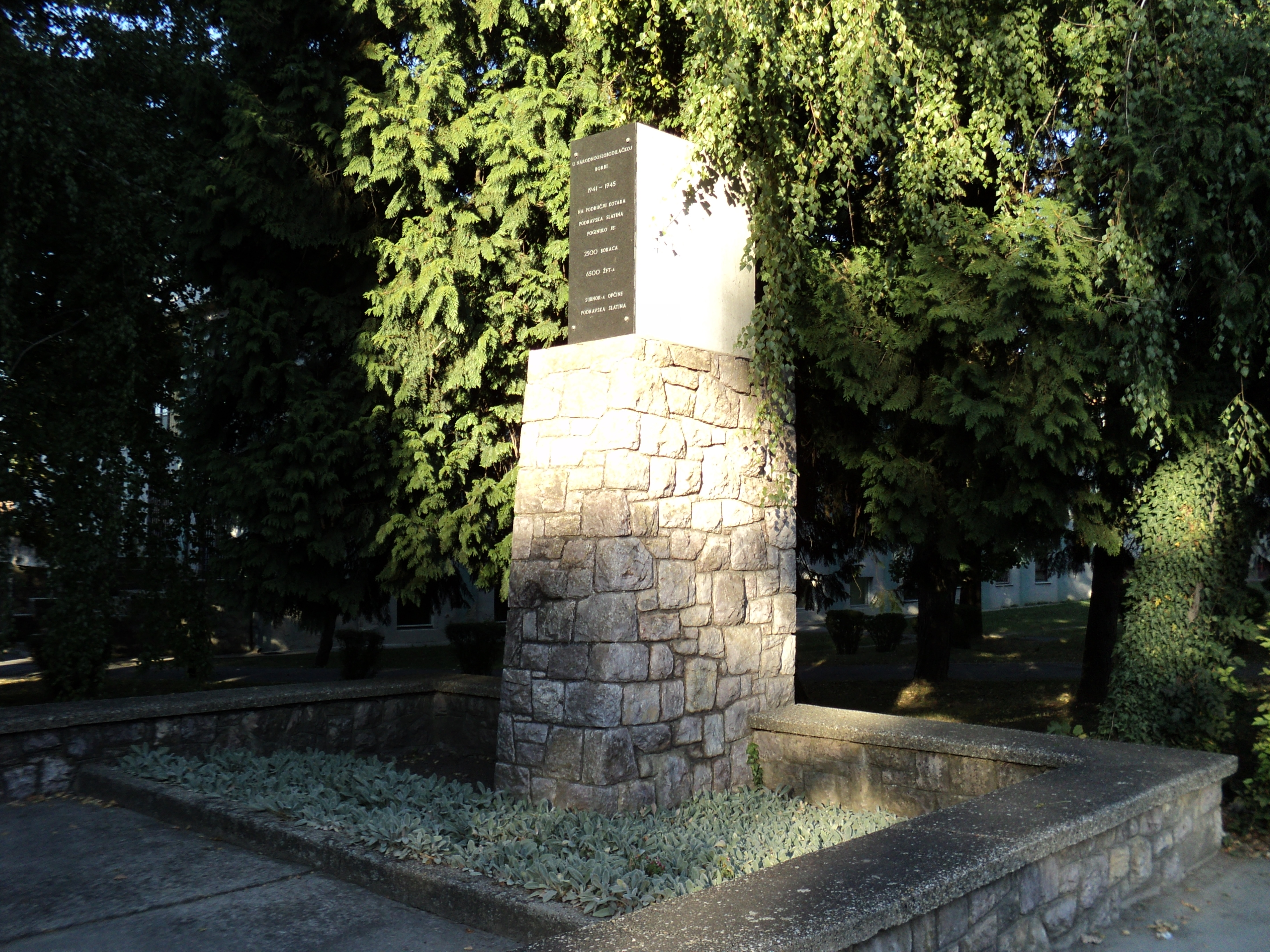 Monument to fallen partisan fighters and victims of fascism in Slatina.